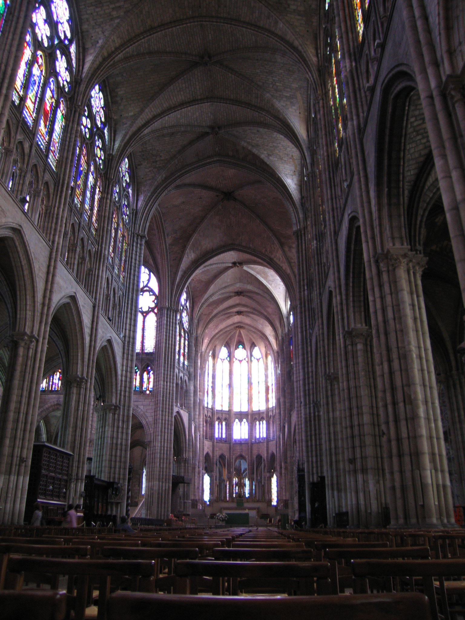 Cathedral of Saint-Denis